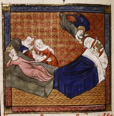 Birth of Philippe Dieu-donne